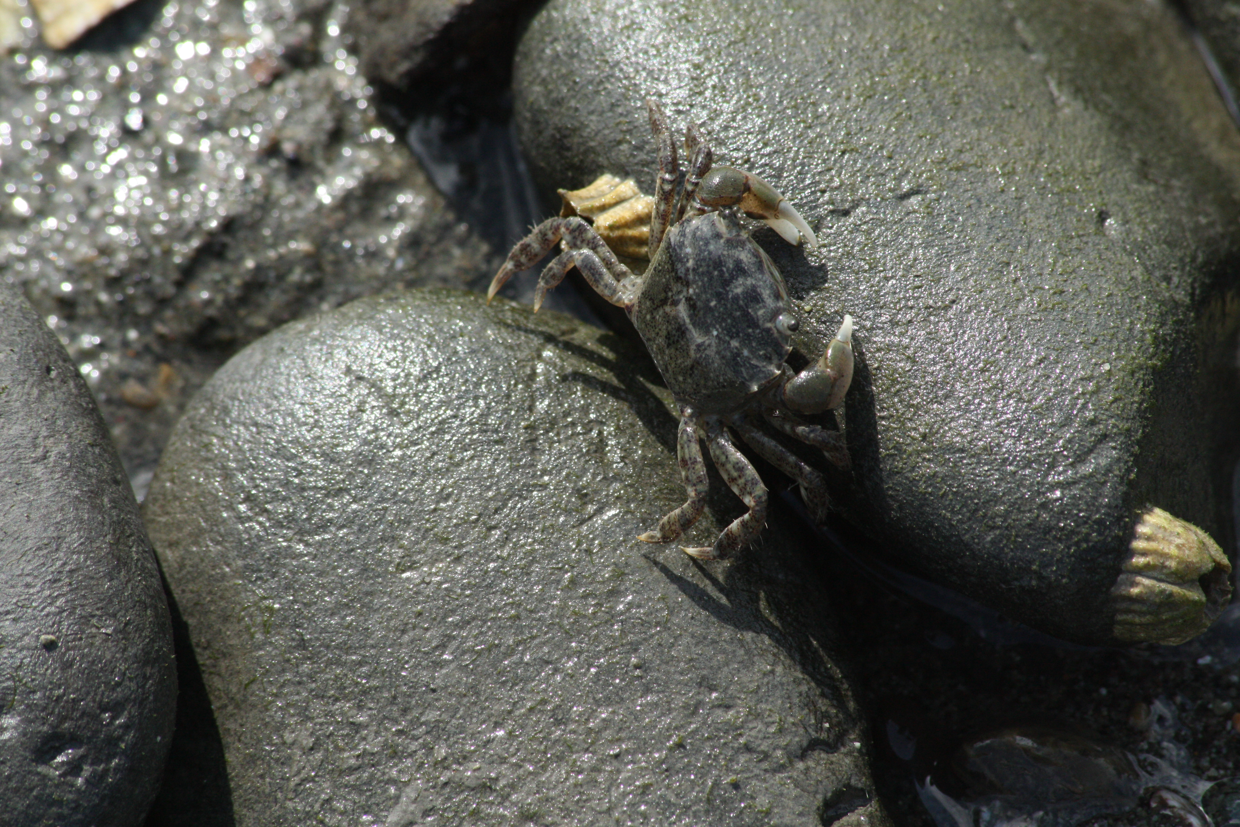 Yellow Shore Crab, Mud-flat Crab, Oregon Shore Crab, Hairy Shore Crab, Green Shore Crab